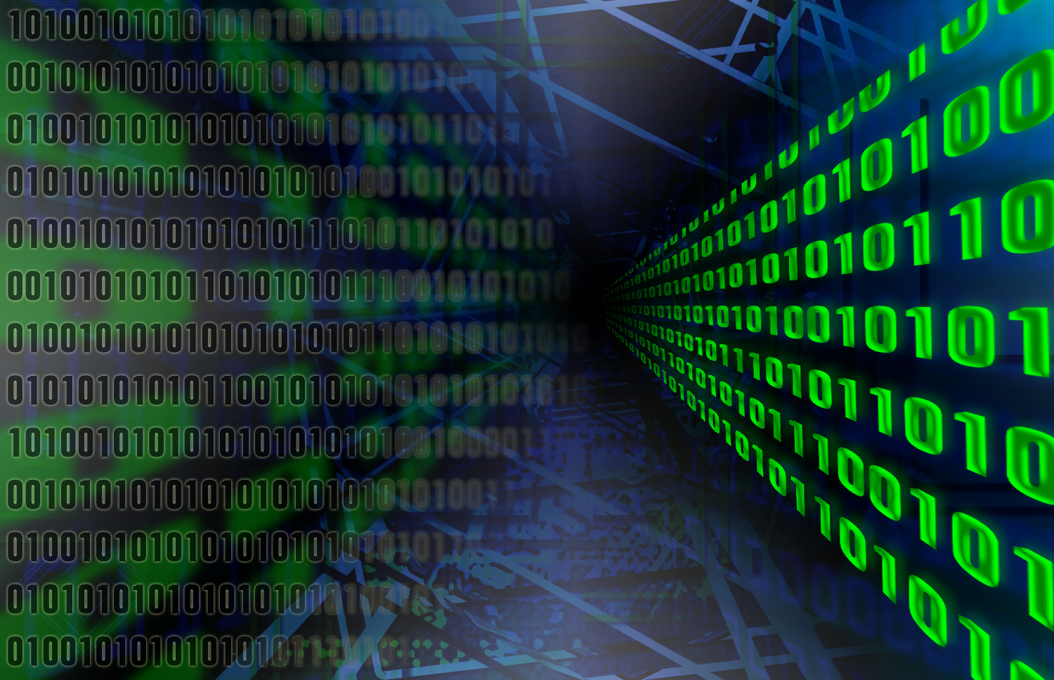 "Big Data" refers to a technological phenomenon that has emerged since the mid-1980s. As computers have improved in capacity and speed, the greater storage and processing possibilities have also generated new problems. But these new requirements, which can be observed in patterns and trends never seen before in the management of these phenomenally large data sets, can be difficult to implement without new analytical tools that allow users to be oriented, highlighting the possible points of interest. DARPA's XDATA program and the community of researchers and artists who have gathered there will be essential to advance the state of the art related to Big Data. for more details.